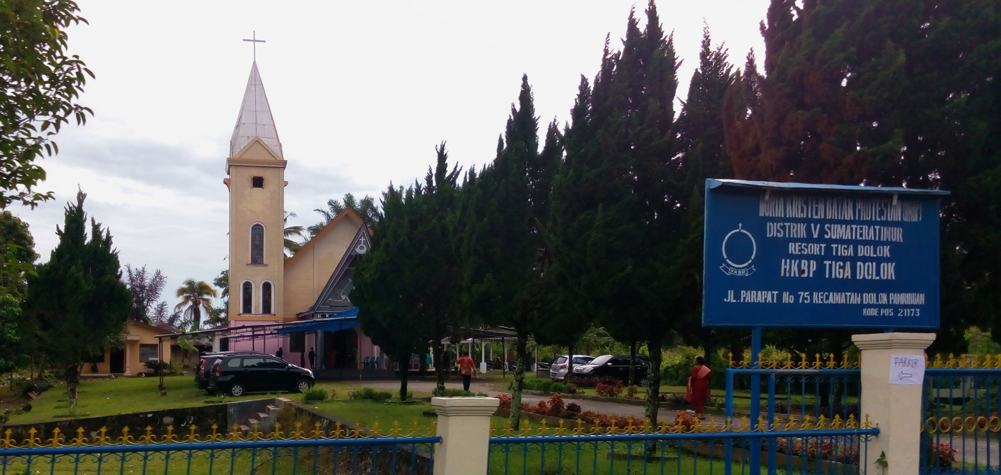 HKBP Tiga Dolok, Church in Tiga Dolok, Dolok Panribuan, Simalungun